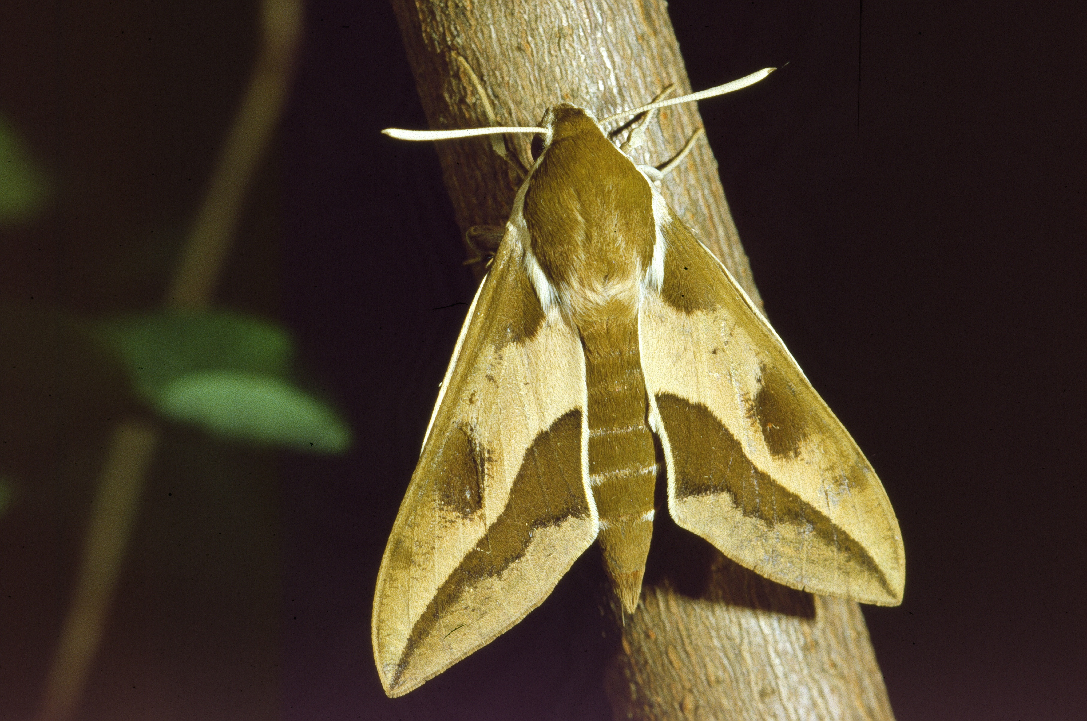 Hyles euphorbiae (french: sphinx de l'euphorbe) photographed in south of the France, gorge of the Verdon